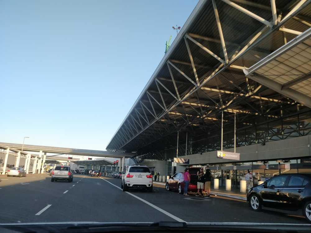 Oakland Airport Terminal 2 as seen in 2018.